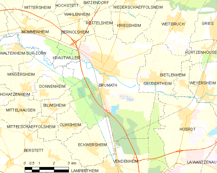 Map of French municipality